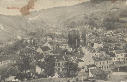 Panoramic view of Tran.